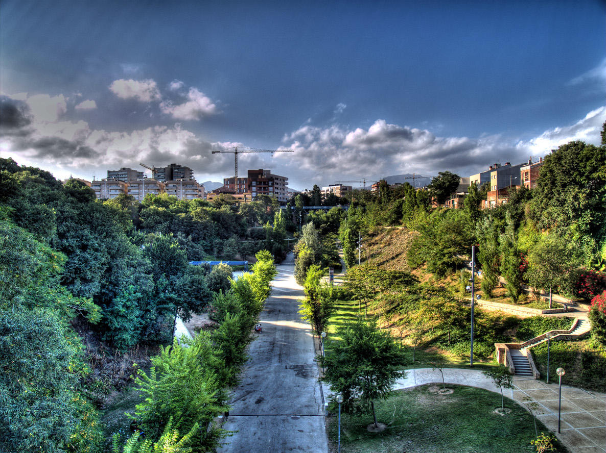 Witch's torrent.